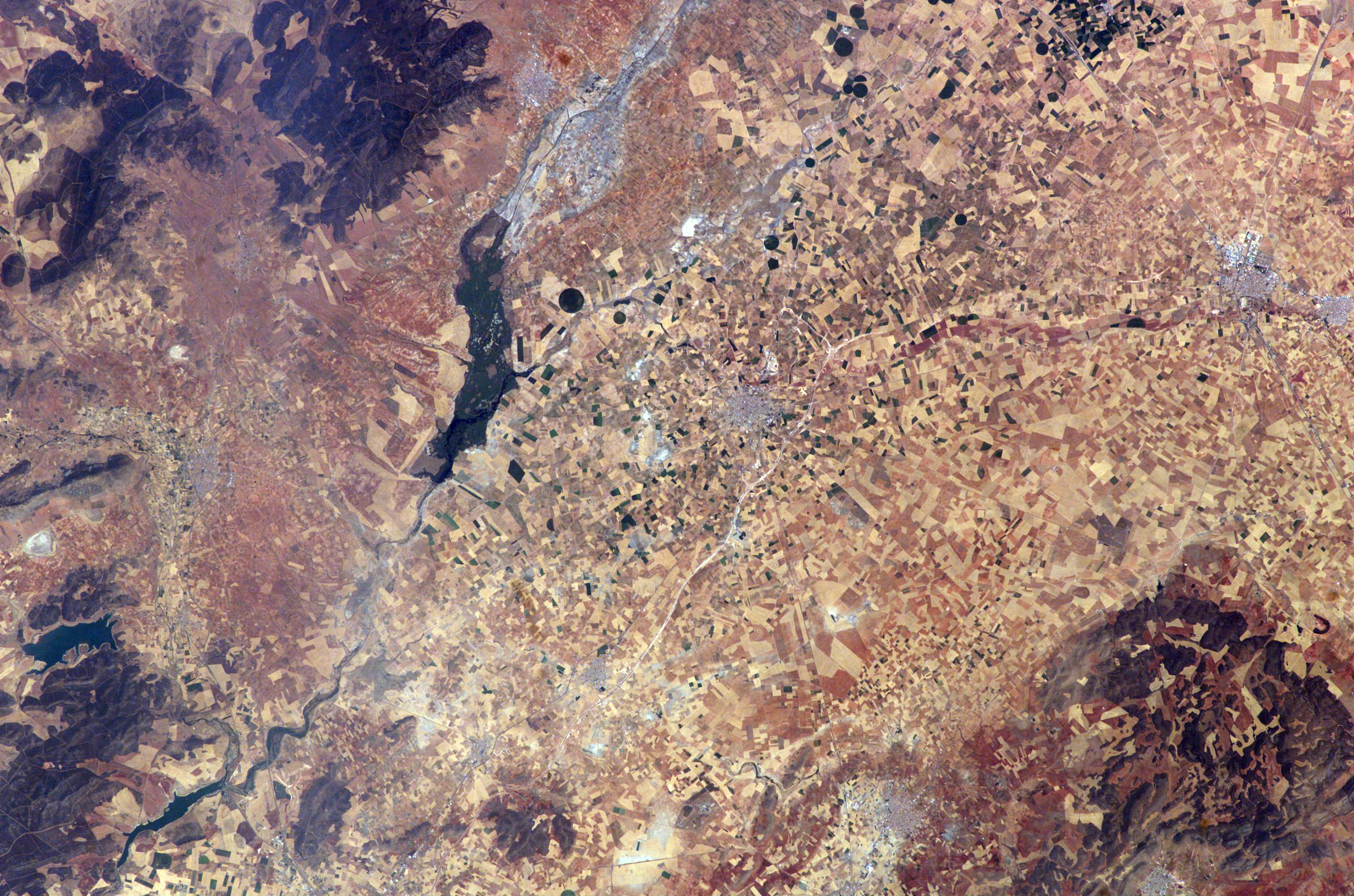 Satellite view of Daimiel and Las Tablas de Daimiel. Center Point Latitude: 39.0 Center Point Longitude: -3.5